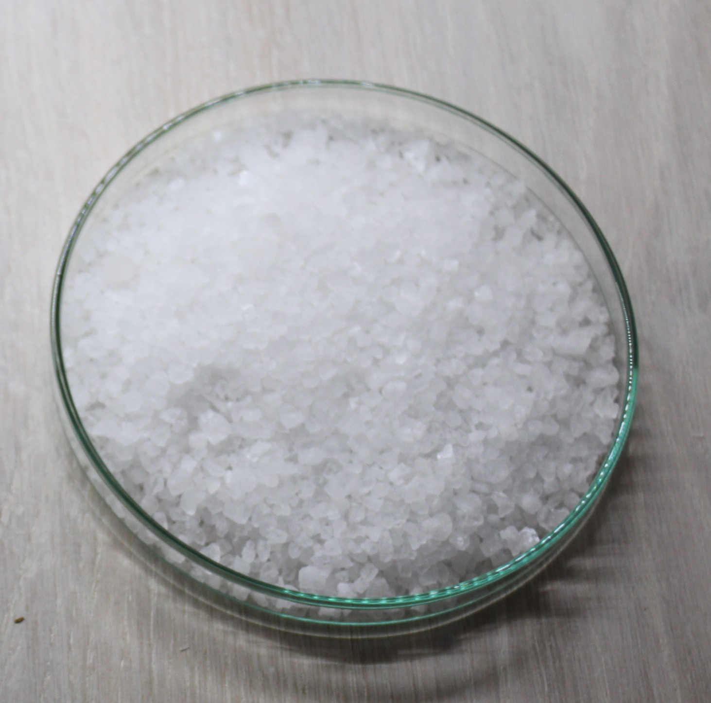 Salt of Sodom, Magnesium Chloride